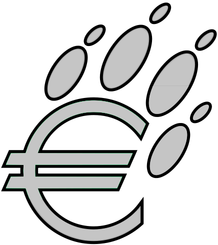 Logo of the EuroBillTracker-project